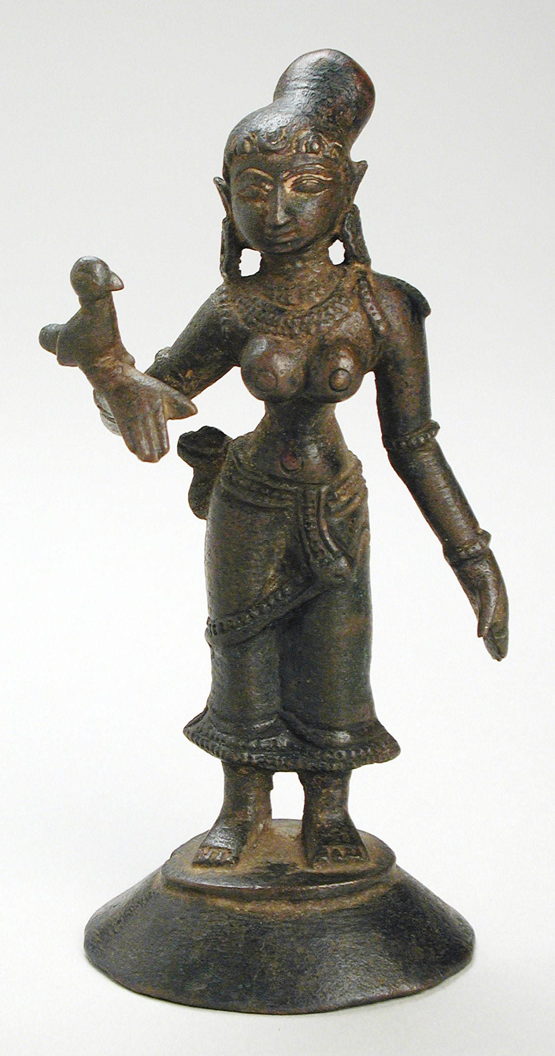 India, Tamil Nadu, Madurai District, 14th century Sculpture Copper alloy Purchased with funds provided by Mr. and Mrs. Edgar G. Richards (M.86.94.2) South and Southeast Asian Art